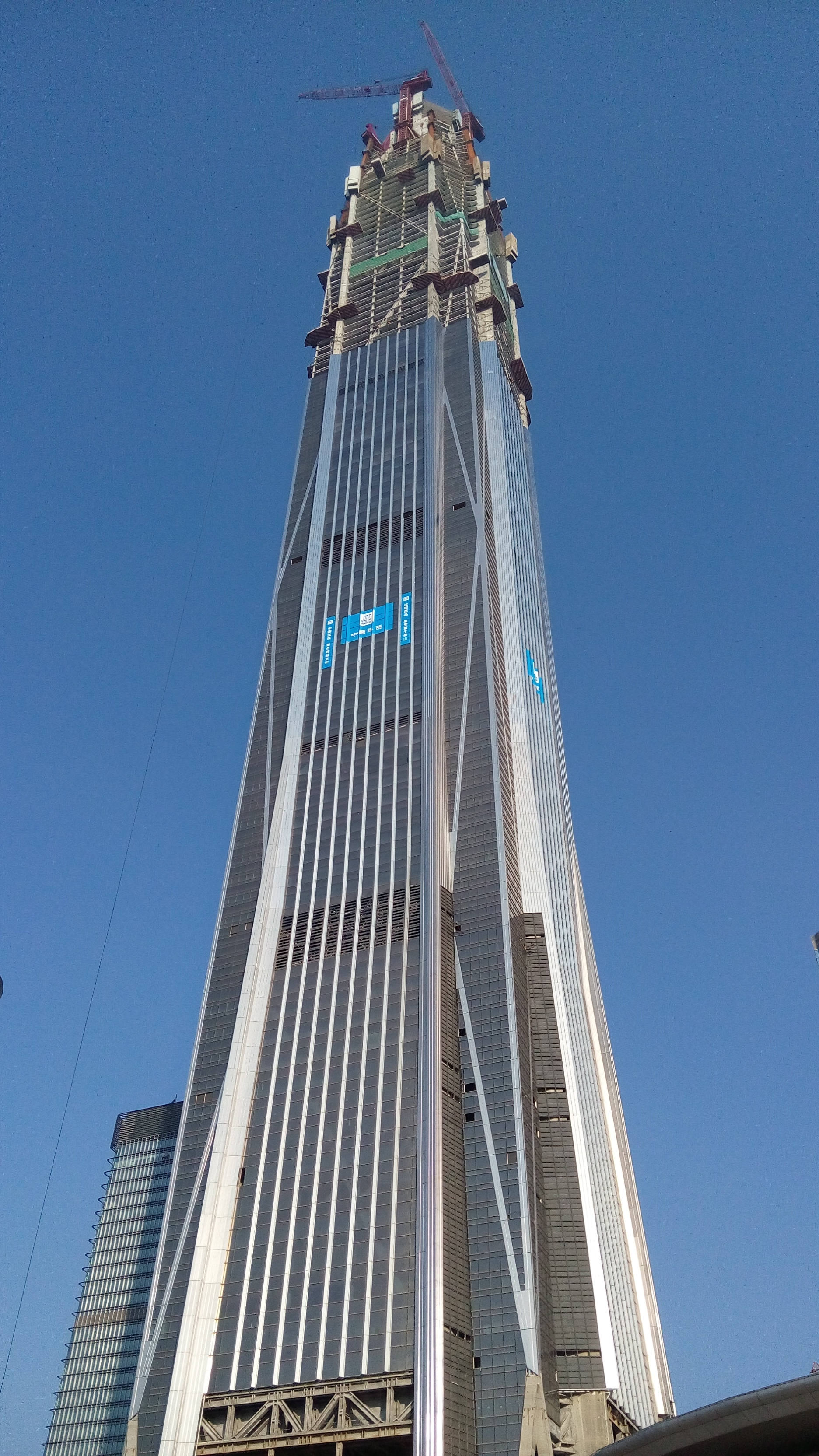 Shenzhen Ping'an International Finance Center, December 21, 2014.